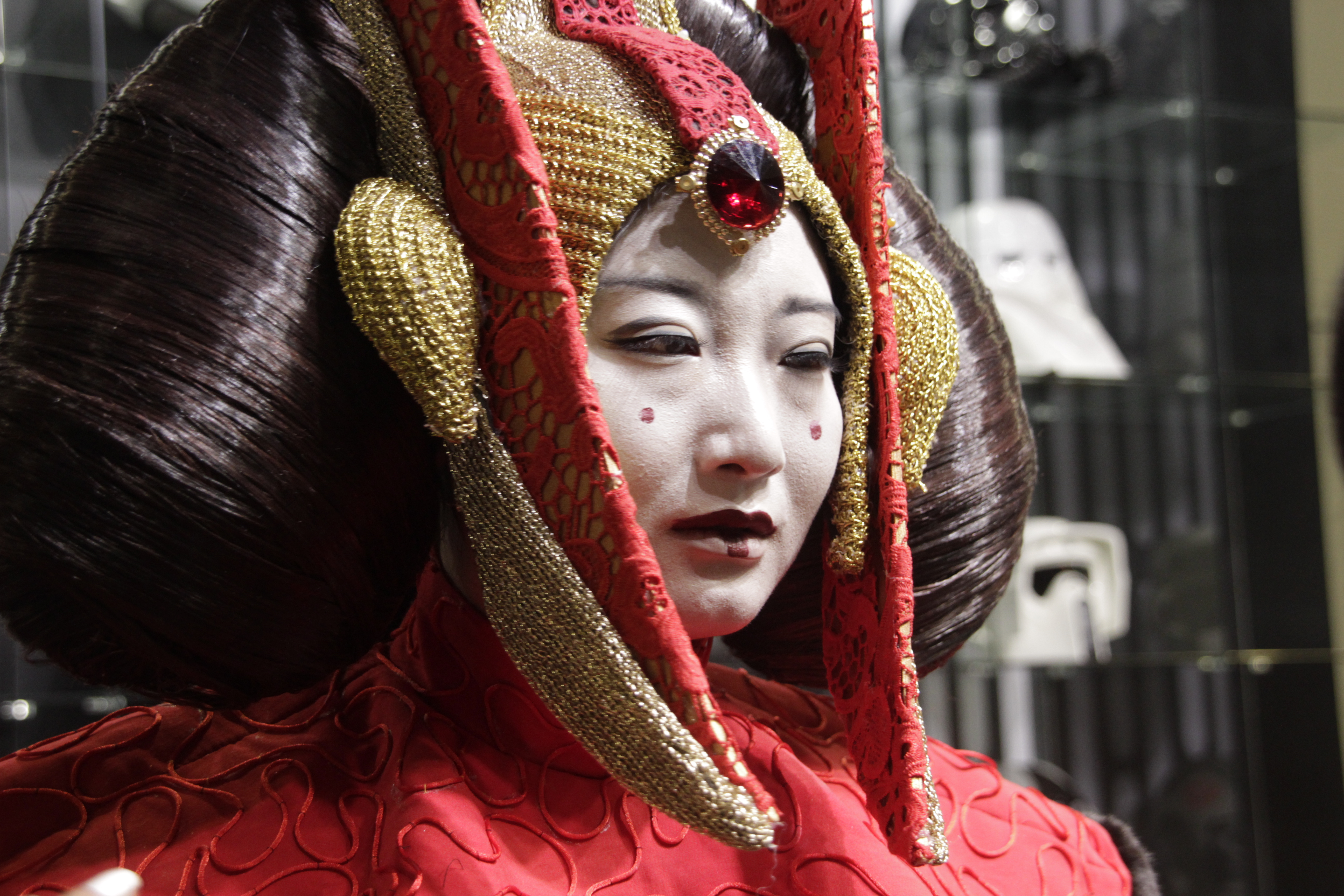 Cosplay at Shanghai Comic Con 2015.